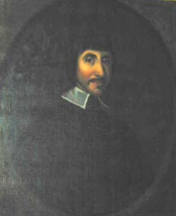 John Winthrop, often known as "John Winthrop, Junior" or "the Younger", was the eldest son of John Winthrop, first governor of the Massachusetts Bay Colony, and Mary Forth, his first wife. His father left the Massachusetts Bay Colony in the spring of 1630, and John stayed behind to care for his stepmother, Margaret (Tyndal) Winthrop, and the Winthrop children, as well as his father's businesses. He was governor of the Colony of Connecticut in 1657, and from 1659 to 1676.